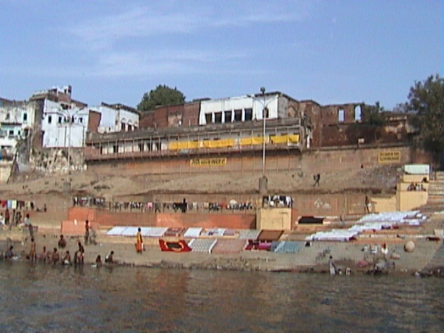 See Varanasi Development Cooperation Handbook/Stories/Responsible Development - Varanasi The Varanasi Heritage Dossier Kautilya Society Play media Vrinda Dar - How we got involved in heritage protection of Varanasi